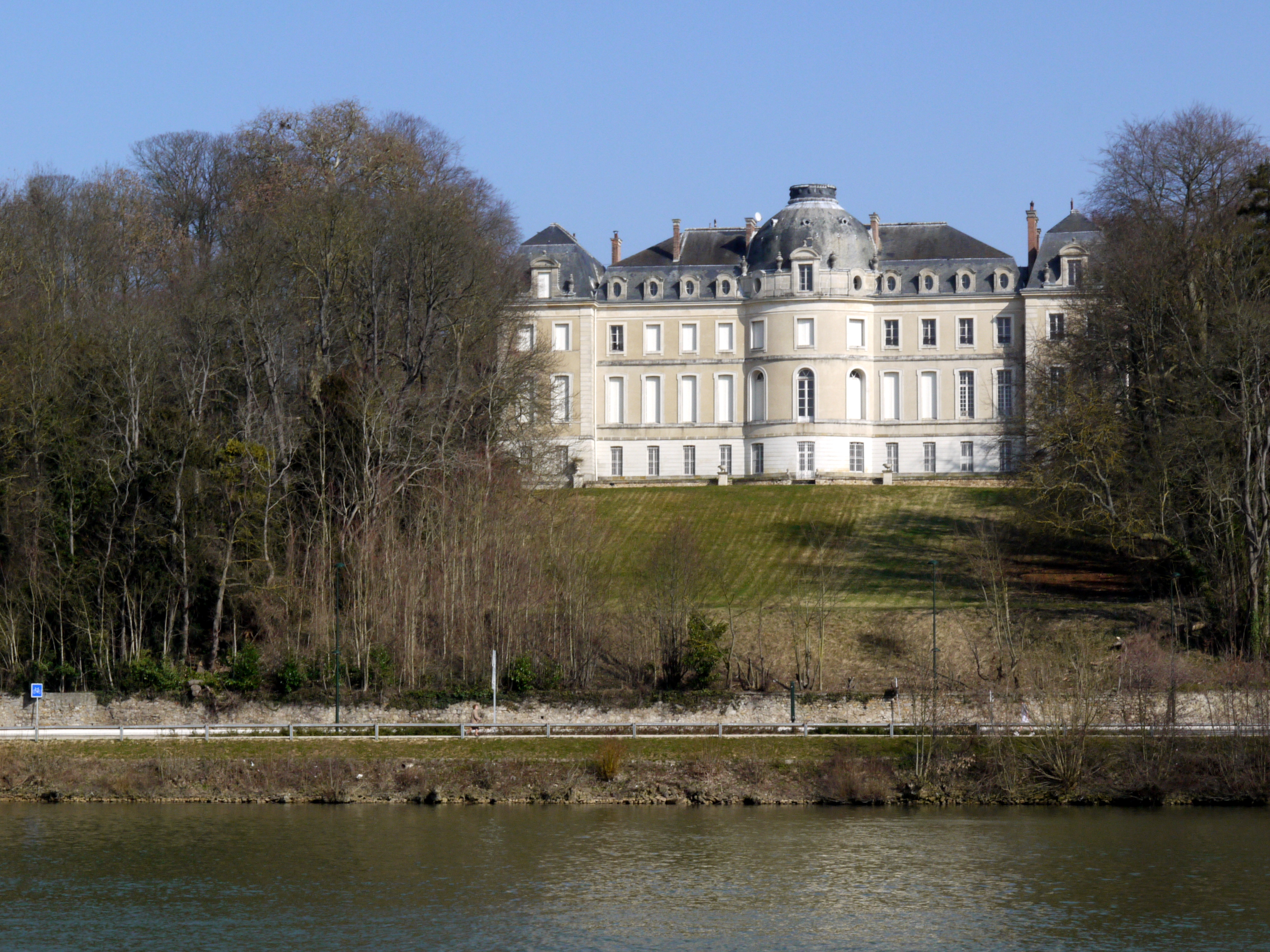 Castle of Vaux-le-Pénil, near Melun in France